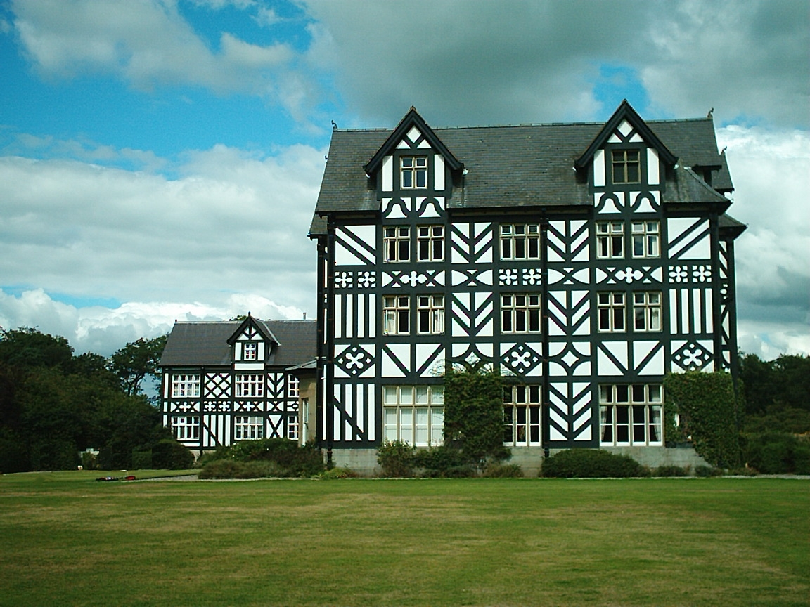 This is a photo of the Gregynog mansion, a conference centre owned by the University of Wales and situated in Tregynon, Powys county, Wales. This view is from the side; the facade is on the right.